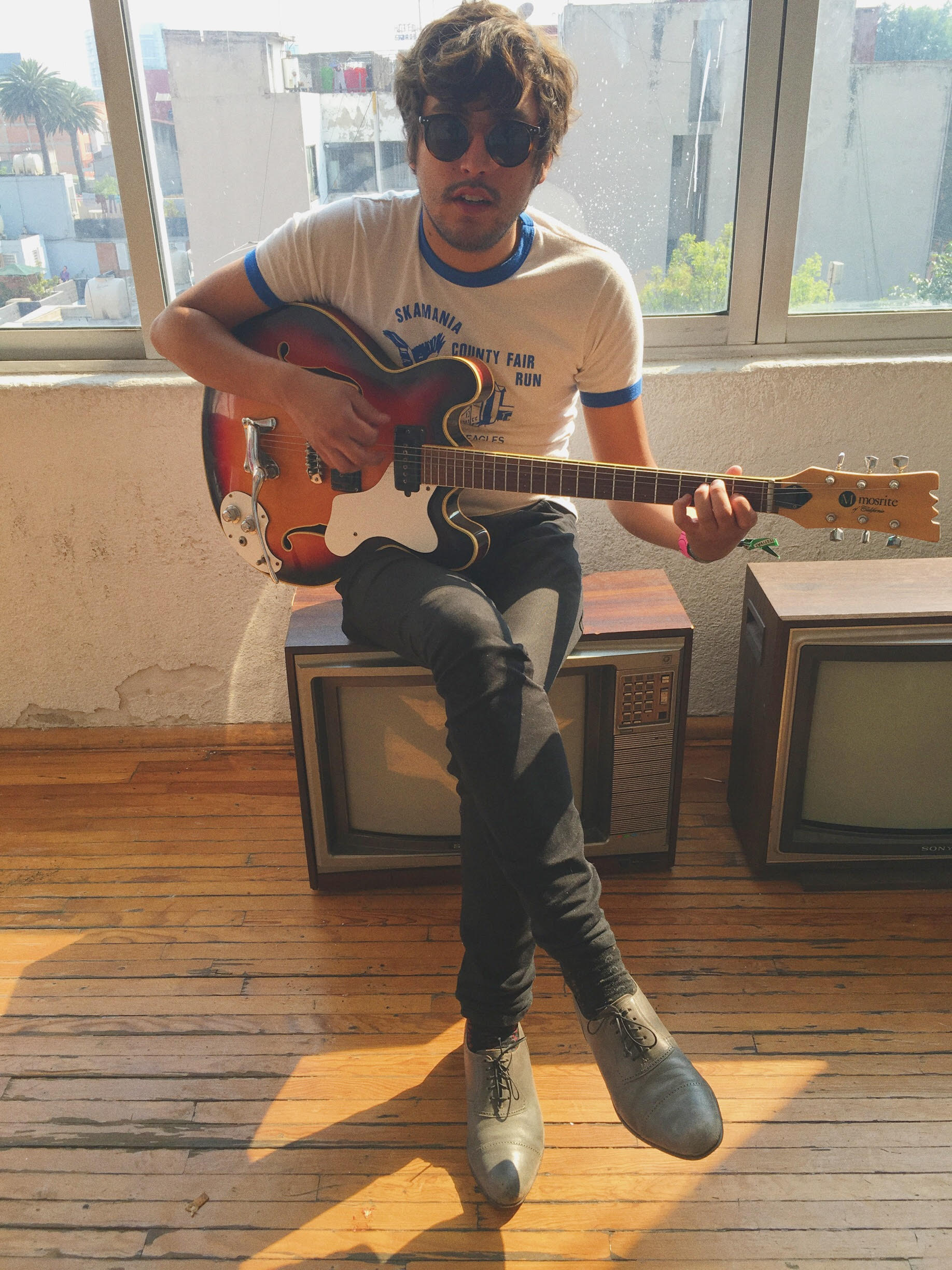 ARIAS IN MEXICO CITY BY ALONSO MANGOSTA (2016)